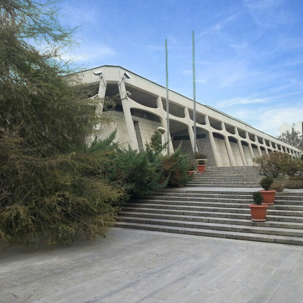 The Carpet Museum of Iran, in Tehran.